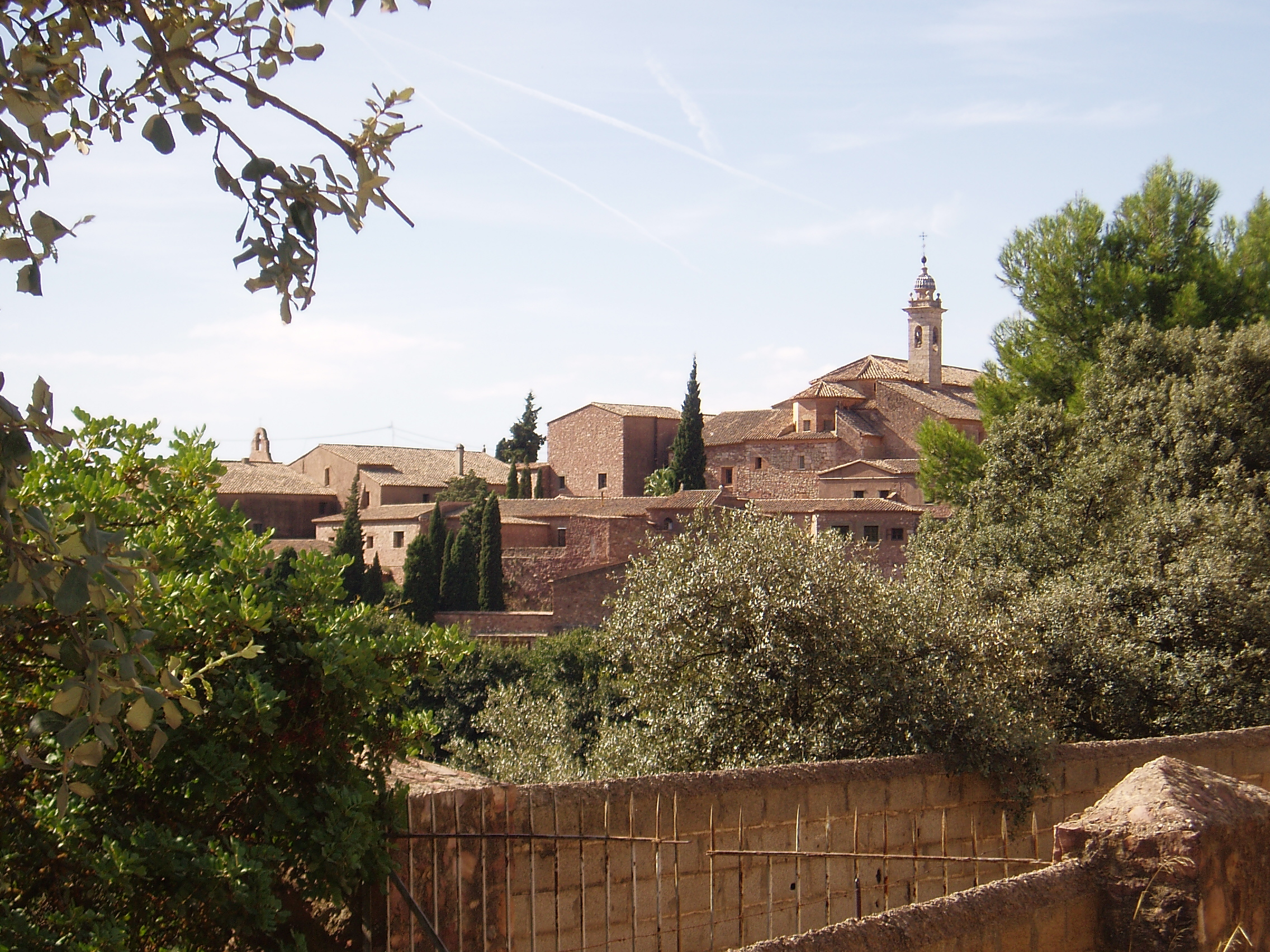 Charterhouse of Porta Coeli. Serra. Valencia. Spain.